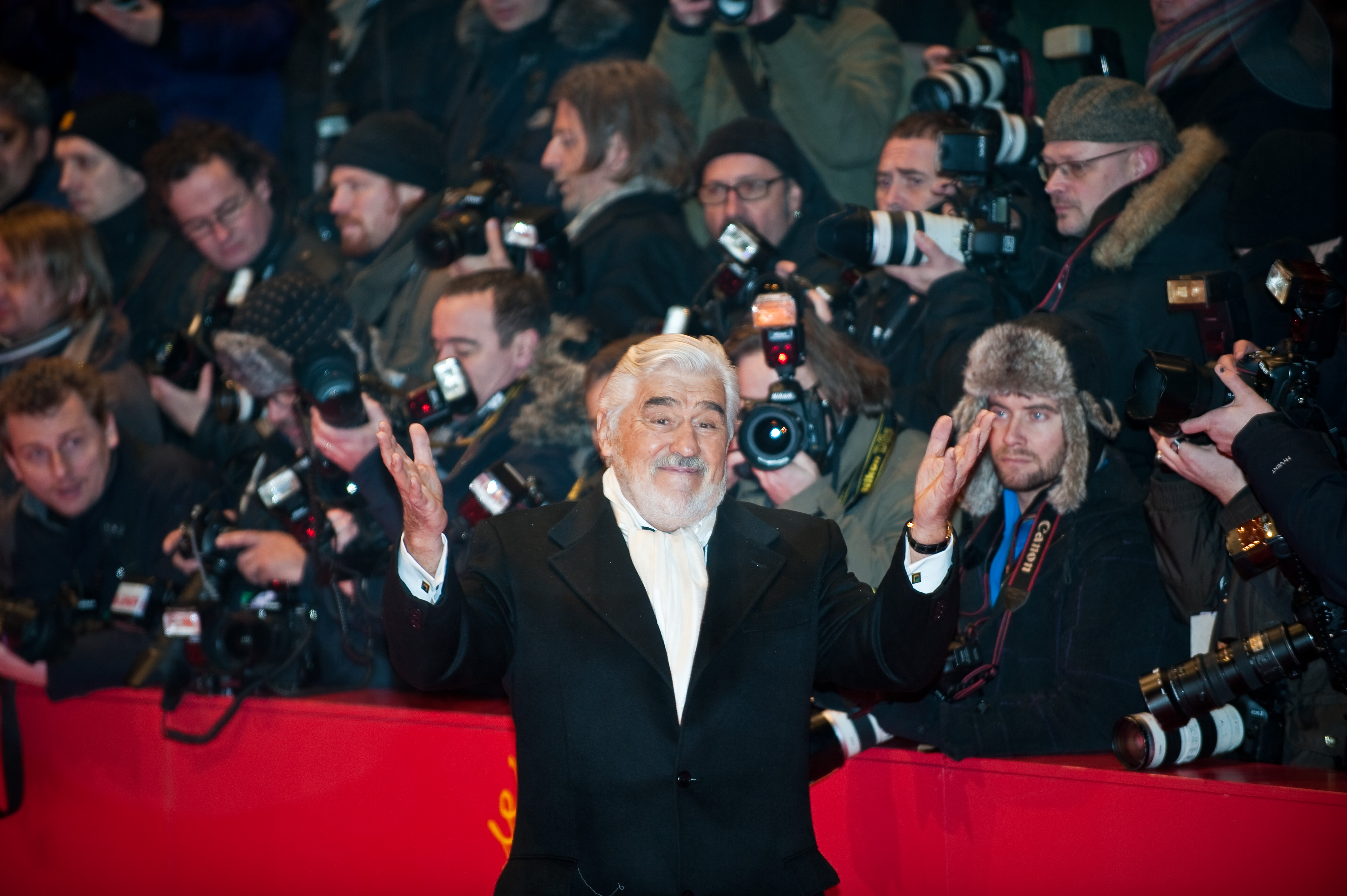 German actor Mario Adorf arriving at the opening of the 60th Berlin International Film Festival.